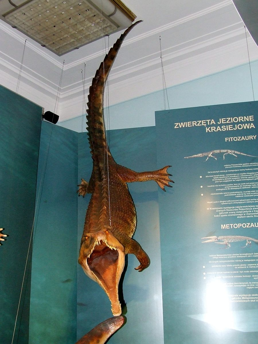 Model based on phytosaur (Paleorhinus cf. arenaceus) remains from Poland, Muzeum Ewolucji PAN